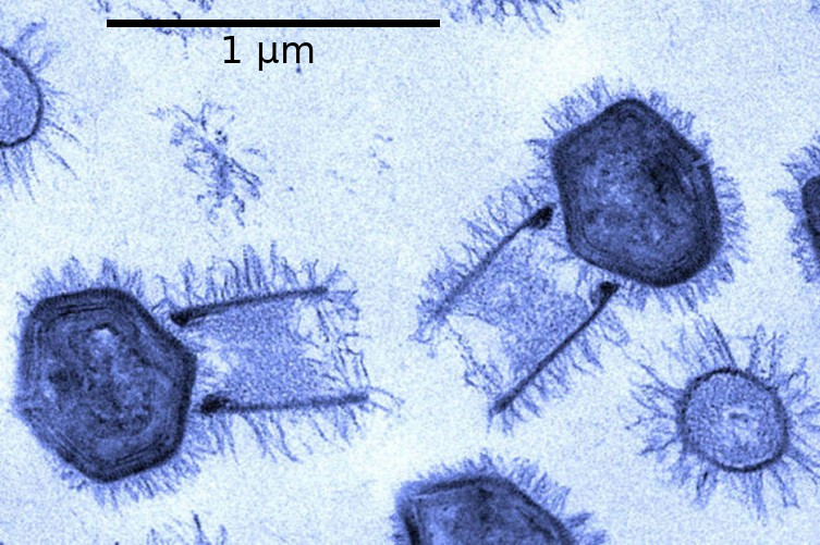 Foto do Tupanvirus